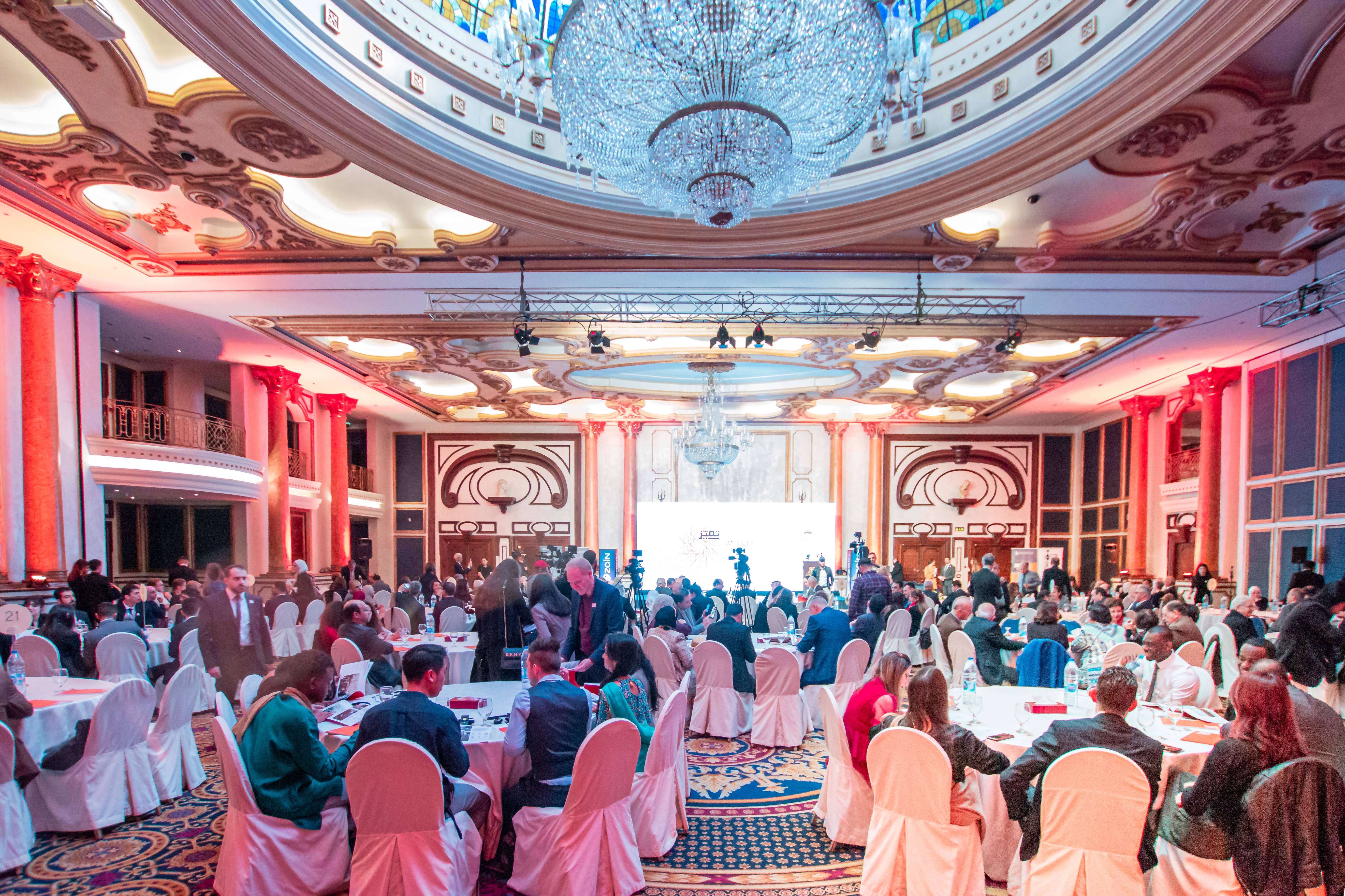 Tamayouz Excellence Award 2019 Ceremony in Amman, Jordan.